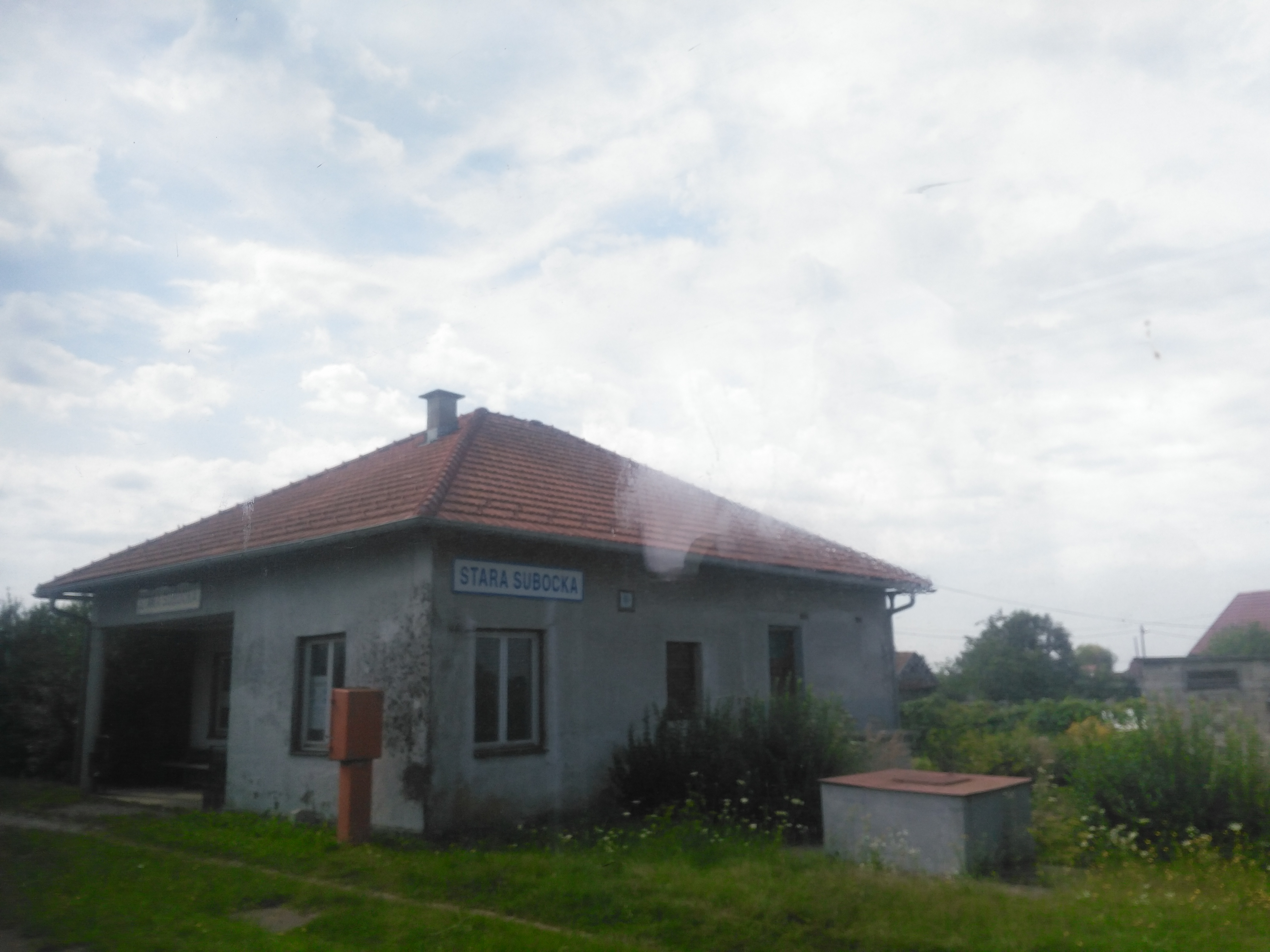 Stara Subocka train station